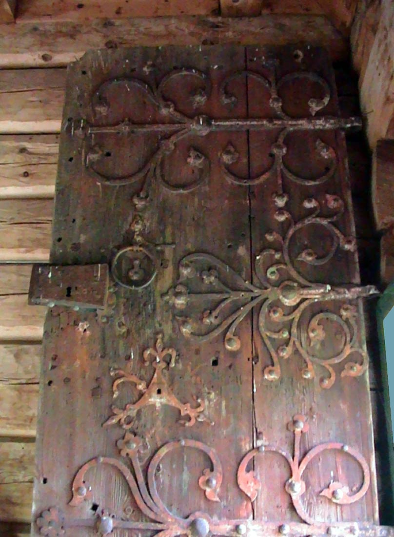 Door from Alhus kirke, possibly from Audun Hugleikssons castle